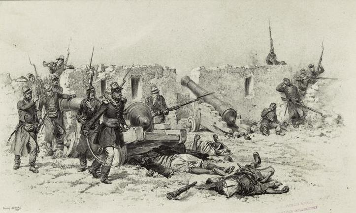 Light infantry of Africa. Taking of Couraia (1833). This illustration appeared in L'Armee Française by Jules Richard, illustrated by Édouard Detaille, first published in 1885.